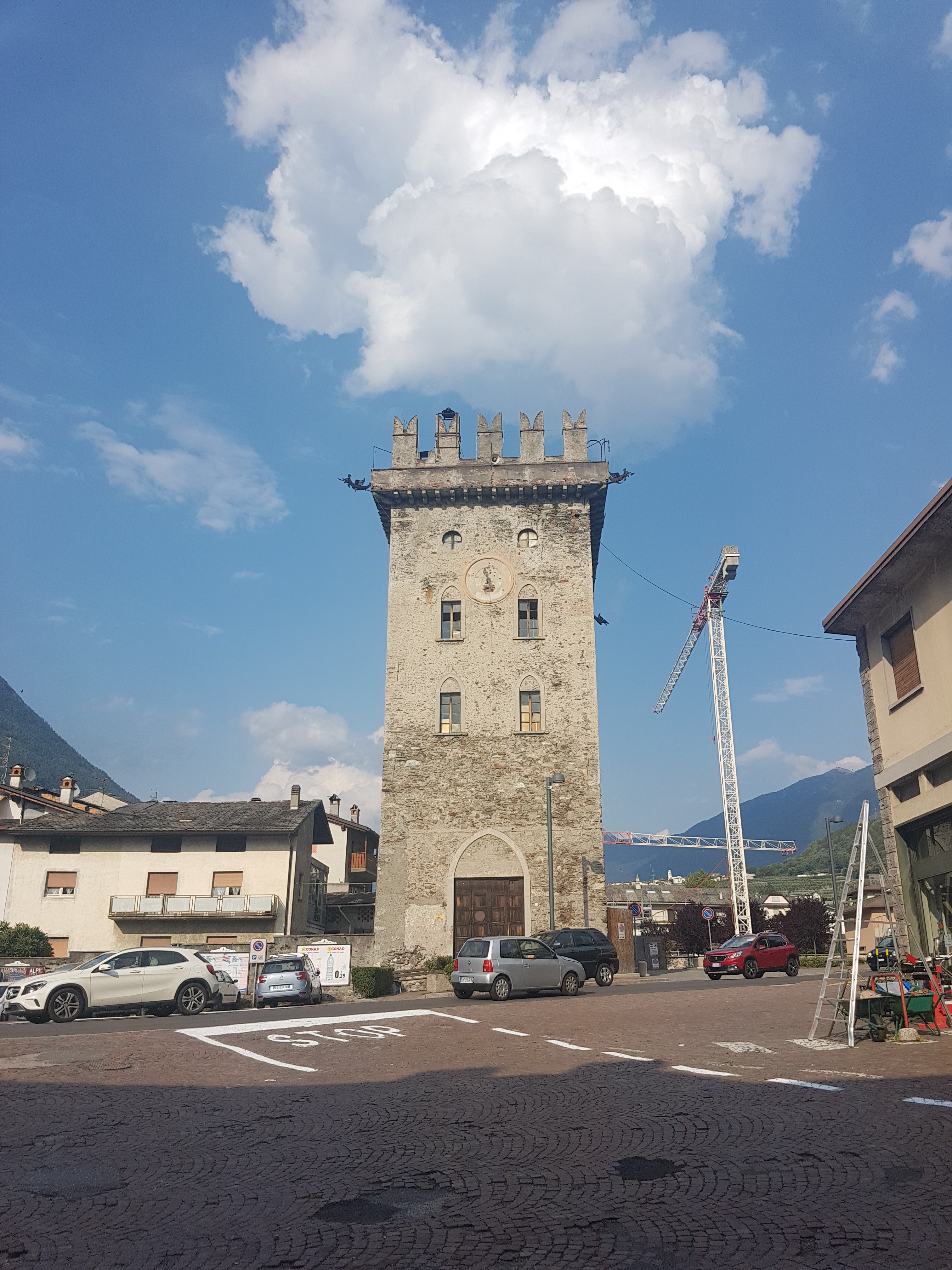 Tirano, Torre (Tower) Torelli, built around 1810.